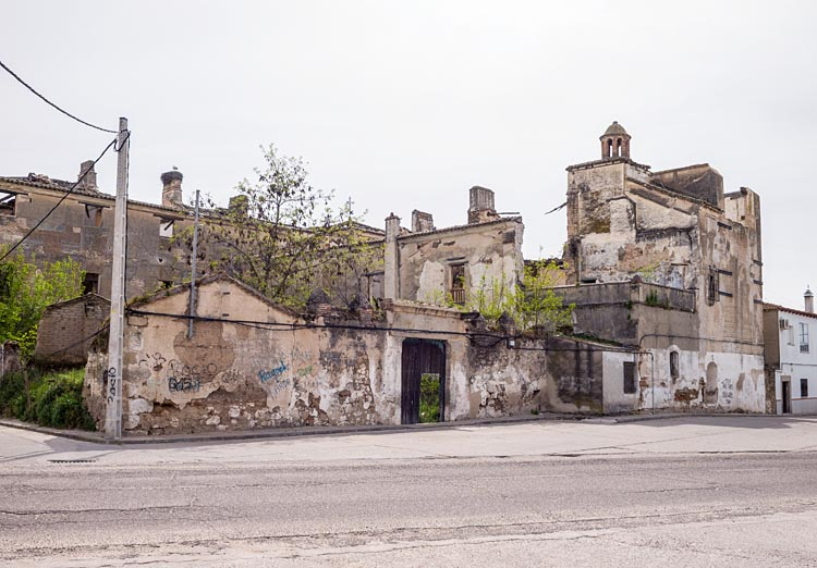 Ruinas del Palacio de los Marqueses de Velada